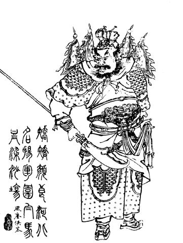 Qing dynasty portrait of Yan Liang